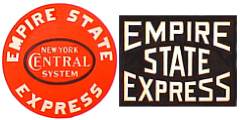 "Drumhead" logos from the New York Central's Empire State Express.